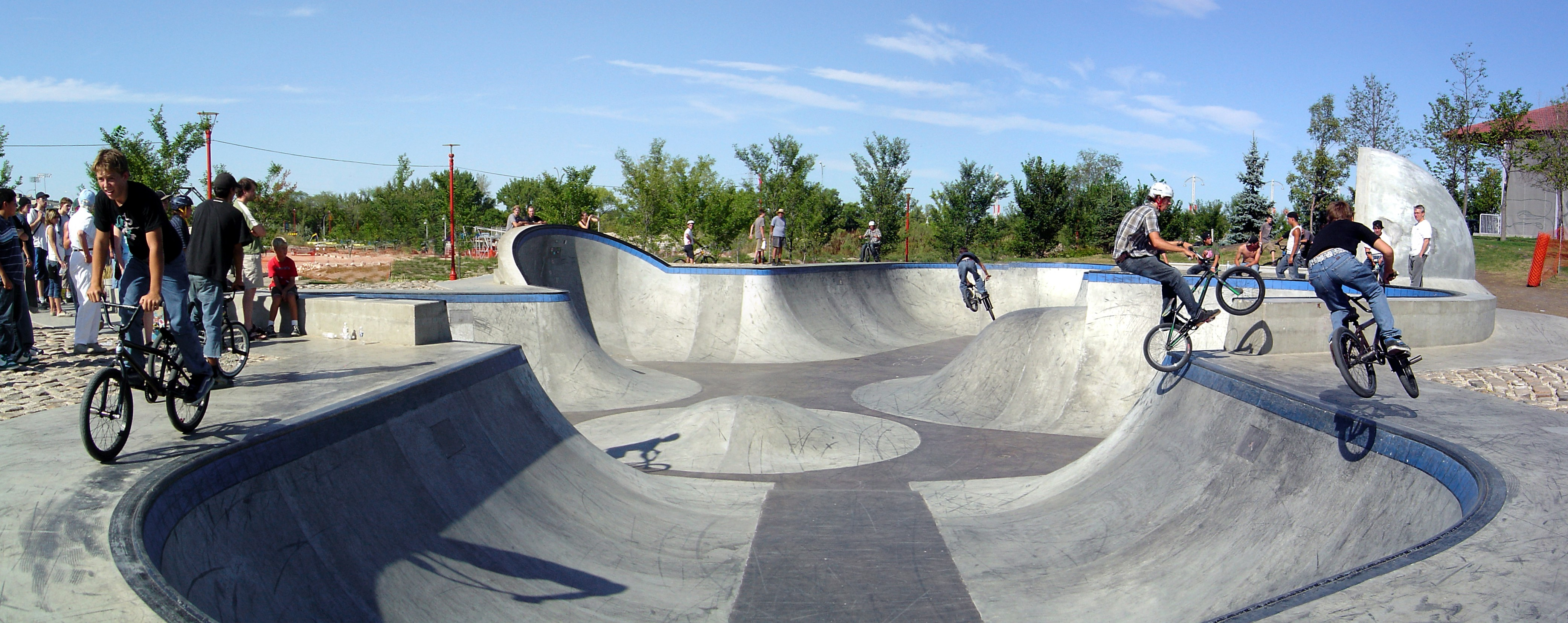 Around the Forks, Winnipeg